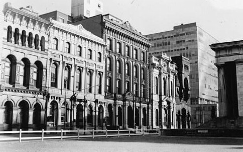 Banker's Row, 407-31 Chestnut Street, Philadelphia, PA. Historic American Buildings Survey—HABS image.